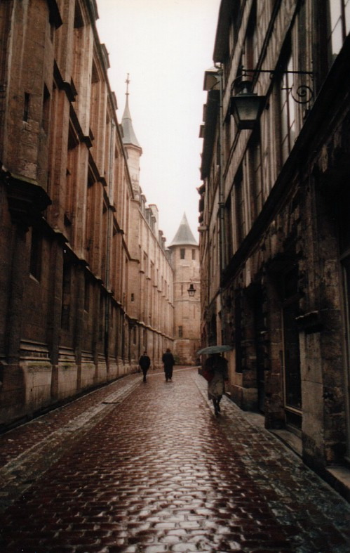 Rue St-Romain on a rainy day in Rouen